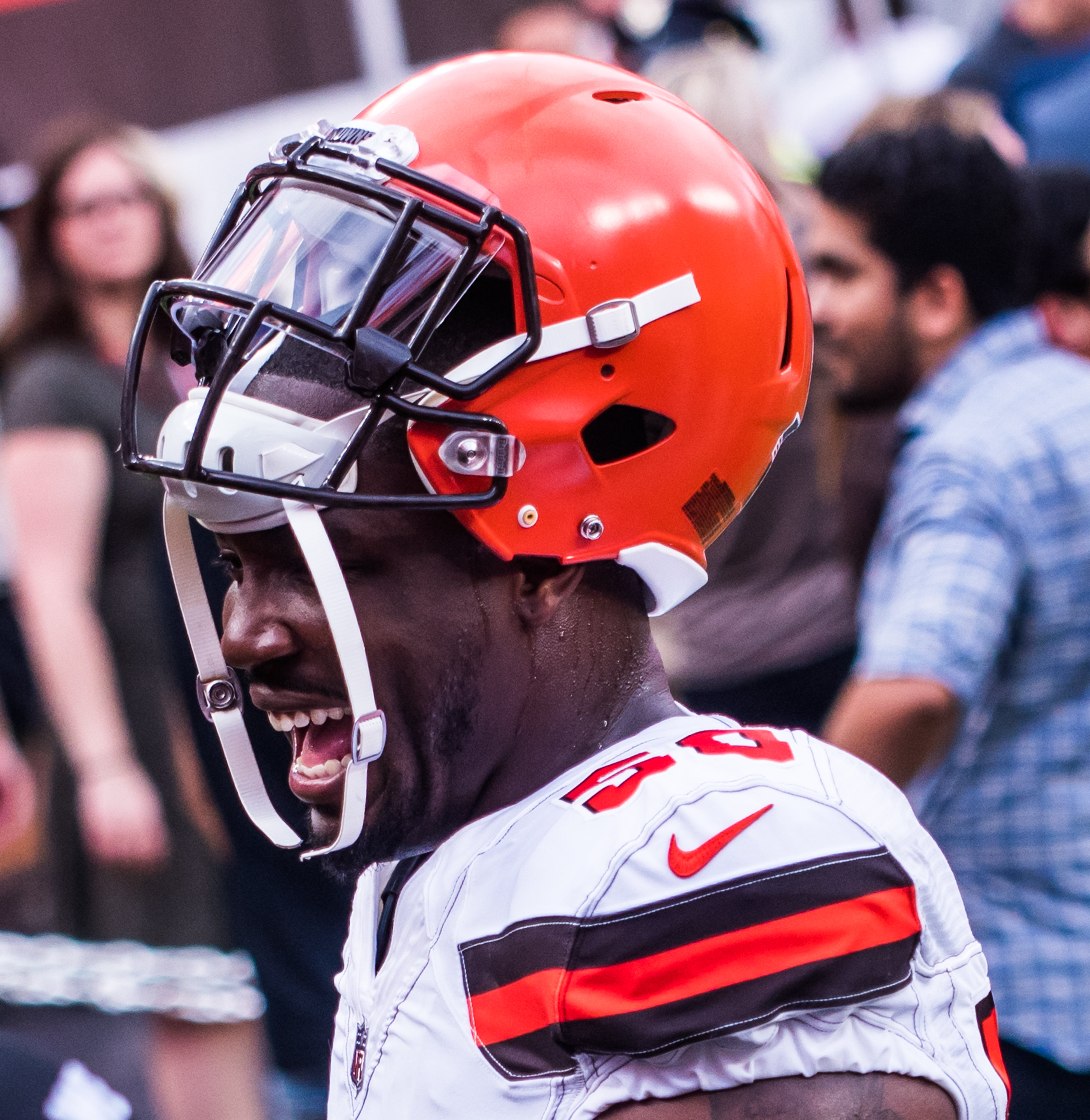 Chris Smith